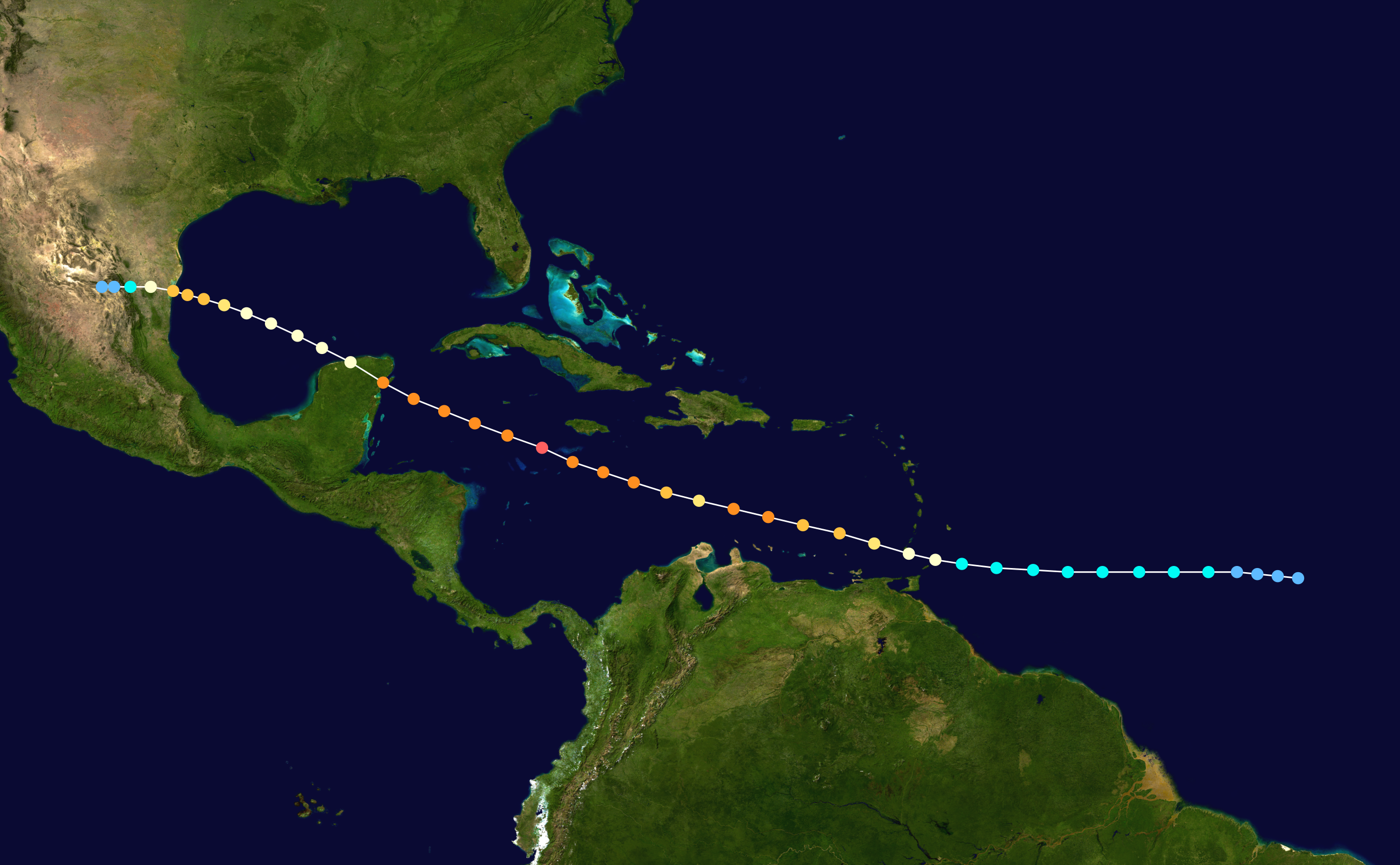 Track map of Hurricane Emily of the 2005 Atlantic hurricane season. The points show the location of the storm at 6-hour intervals. The colour represents the storm's maximum sustained wind speeds as classified in the Saffir–Simpson scale (see below), and the shape of the data points represent the nature of the storm, according to the legend below. Saffir–Simpson scale Tropical depression≤38 mph≤62 km/h Category 3111–129 mph178–208 km/h Tropical storm39–73 mph63–118 km/h Category 4130–156 mph209–251 km/h Category 174–95 mph119–153 km/h Category 5≥157 mph≥252 km/h Category 296–110 mph154–177 km/h Unknown Storm type Tropical cyclone Subtropical cyclone Extratropical cyclone / Remnant low / Tropical disturbance / Monsoon depression